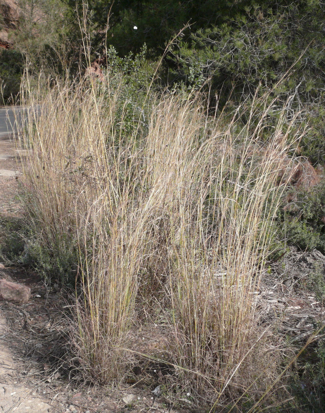 Hyparrhenia hirta, el Papiol, Baix Llobregat, Catalonia